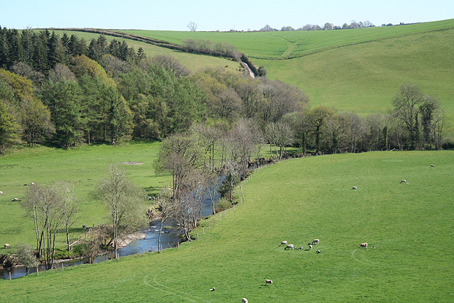 George Nympton: river Mole, near to Alswear, Devon, Great Britain. Looking south east by the entrance to Little Hele and a little below the confluence of the Mole and the Yeo